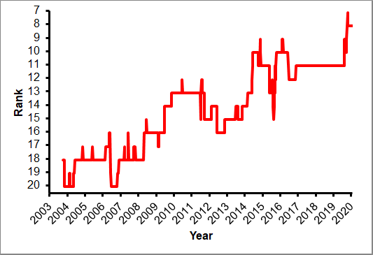 IRB World Rankings from